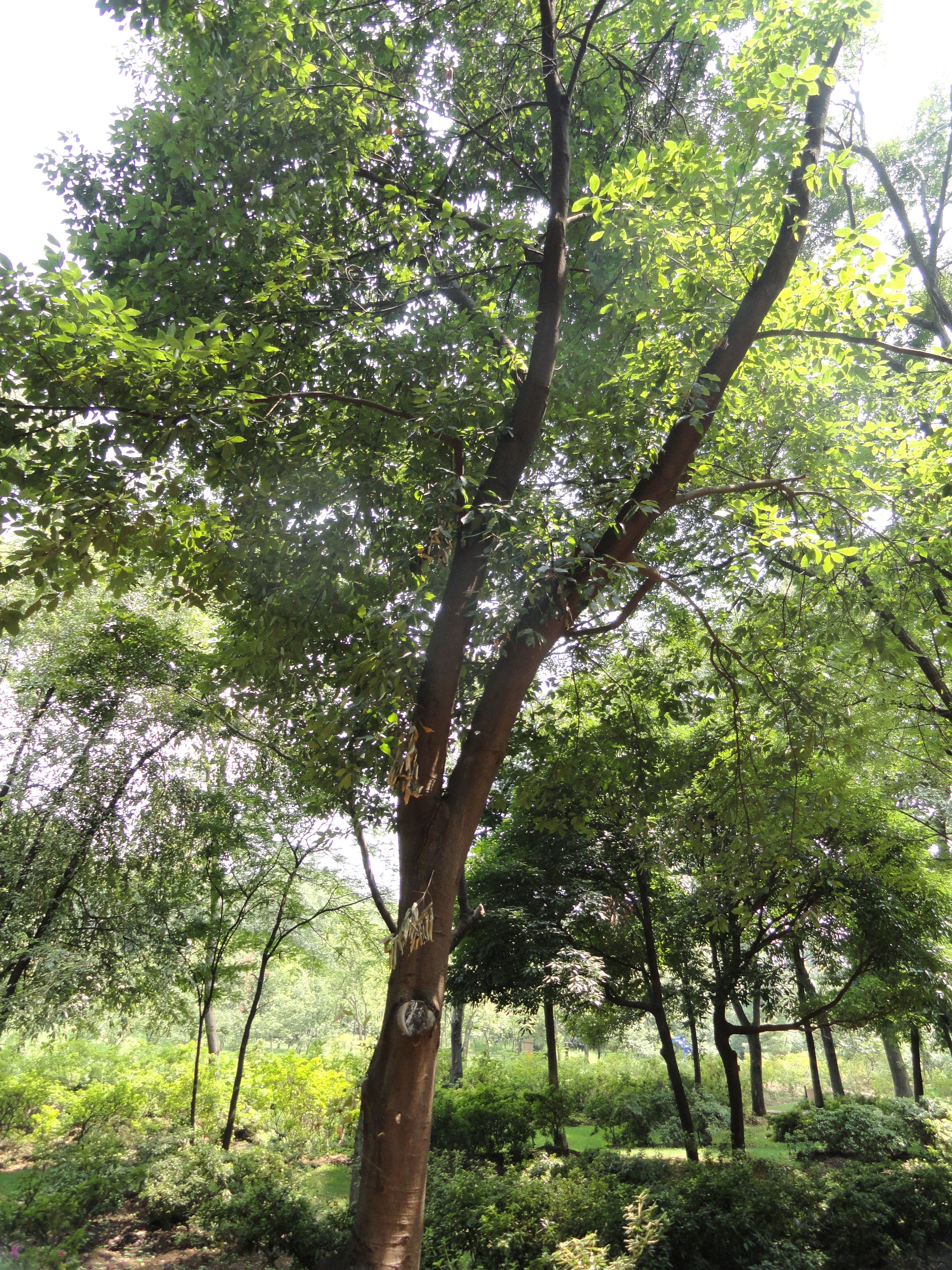 Plant specimen in the Kunming Botanical Garden, Kunming, Yunnan, China.